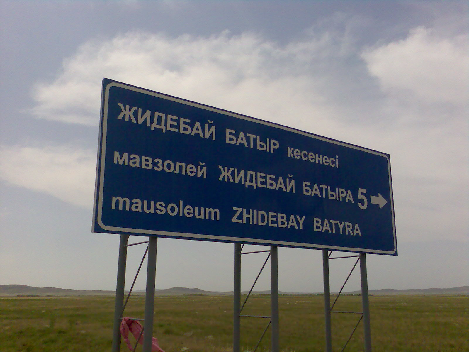 Указатель Мавзолей Жидебай батыра